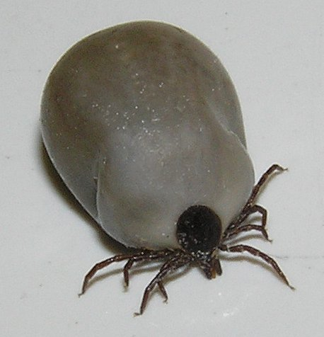 Ixodes ricinus